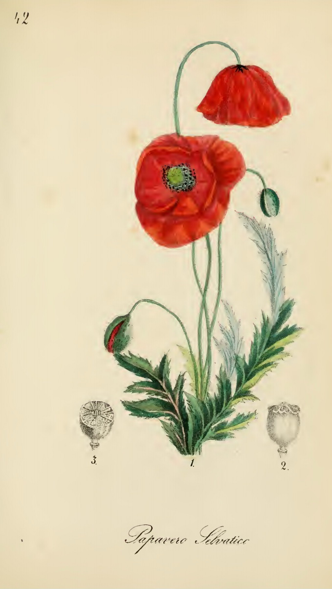 Papaver rhoeas L. = Papavero selvatico